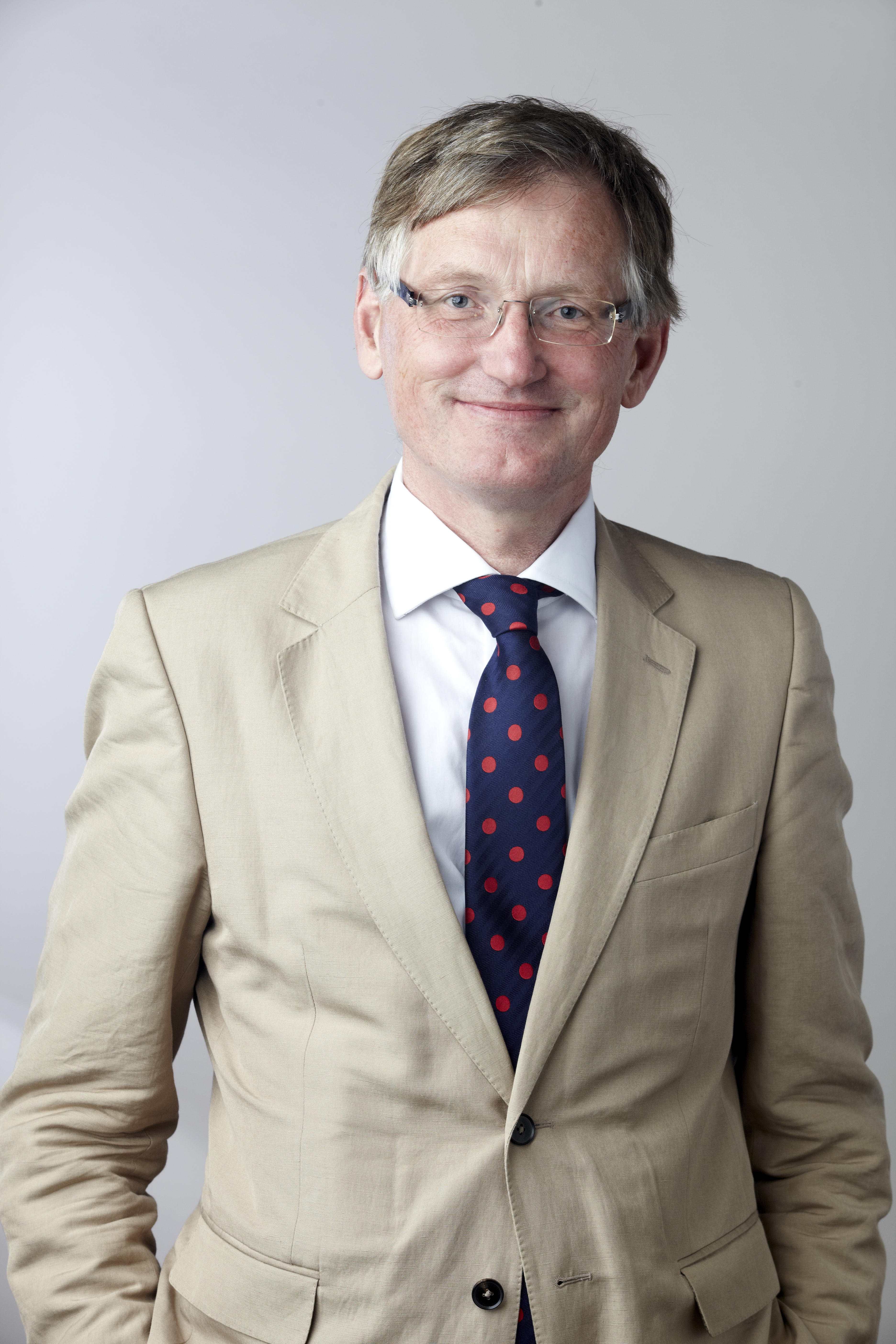 Professor Patrik Rorsman FMedSci FRS, Royal Society Fellow elected 2014 Attribution: The Royal Society